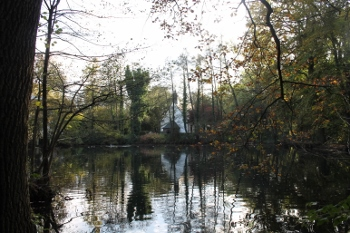 Pond of Paesmühle.